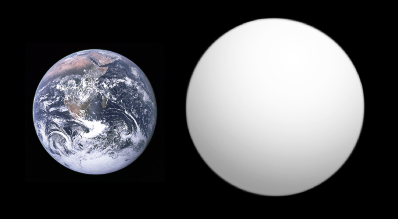 Size comparison of K2-3d (white sphere) with Earth, based on current data.